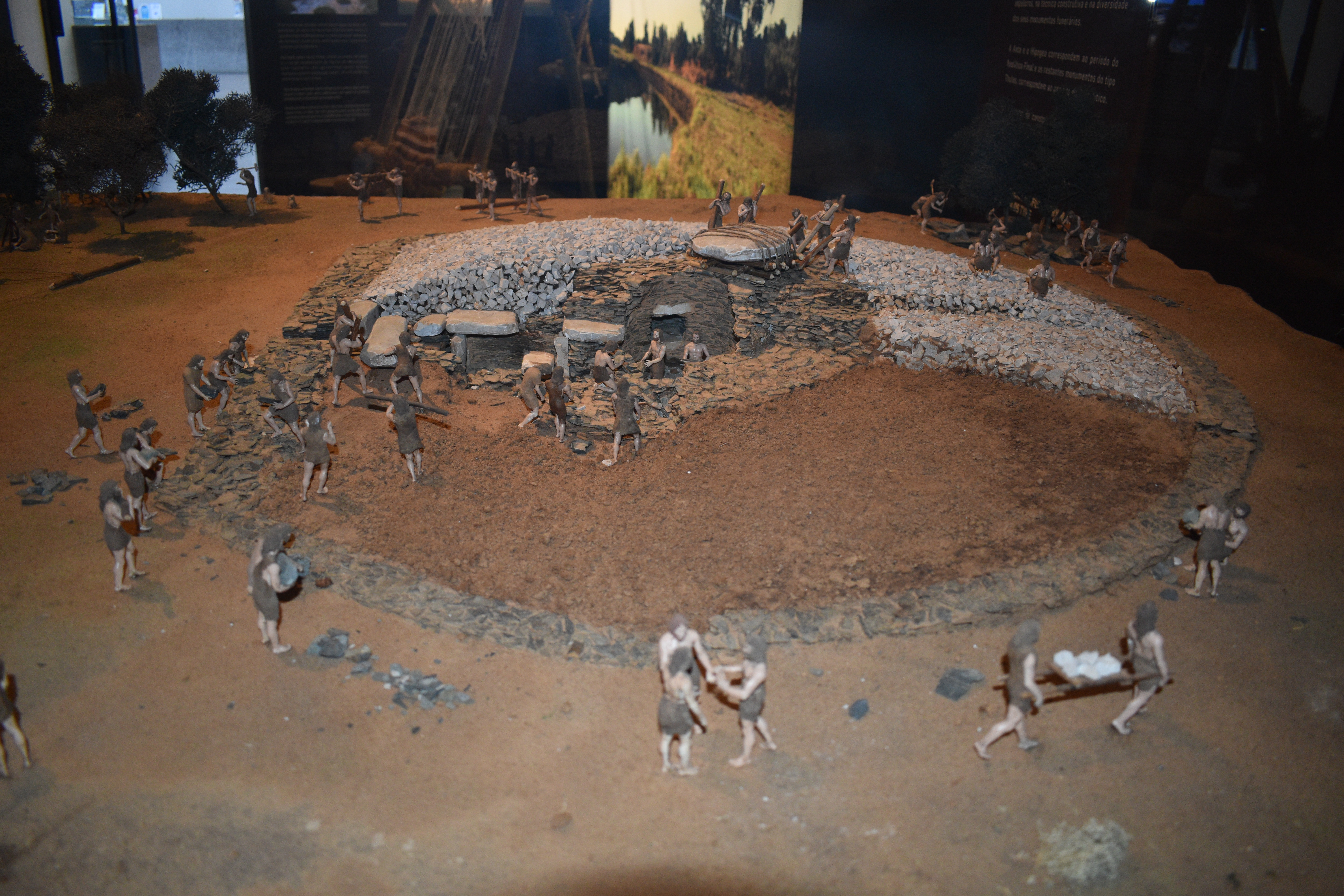 Diorama of the construction of funerary monument No. 7, in the pre-historic site of Alcalar, in the region of the Algarve, in Southern Portugal.